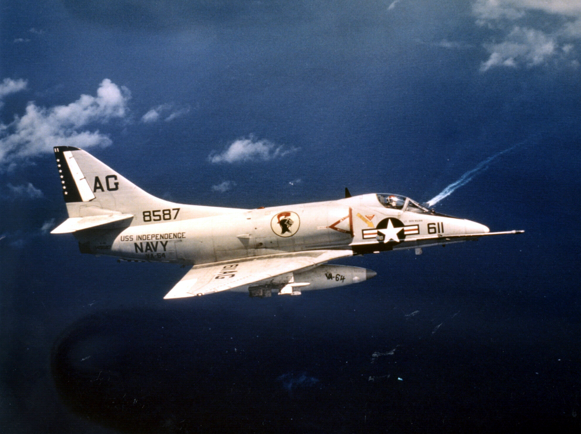 A U.S. Navy Douglas A-4C Skyhawk (BuNo 148587) from Attack Squadron VA-64 "Black Lancers" flying in the Caribbean near Cuba. VA-64 was assigned to Carrier Air Wing 7 (CVW-7) aboard the aircraft carrier USS Independence (CVA-62), barely visible below, for a deployment to the Mediterranean Sea from 30 April 1968 to 27 January 1969. After another short cruise aboard Independence to the North Atlantic in September-October 1969, VA-64 was disestablished on 7 November 1969.